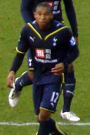 Wilson Palacios, Fulham v Spurs, December 2009 This file has been extracted from another file: Fulham v Spurs December 2009.jpg